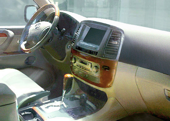 LX 470